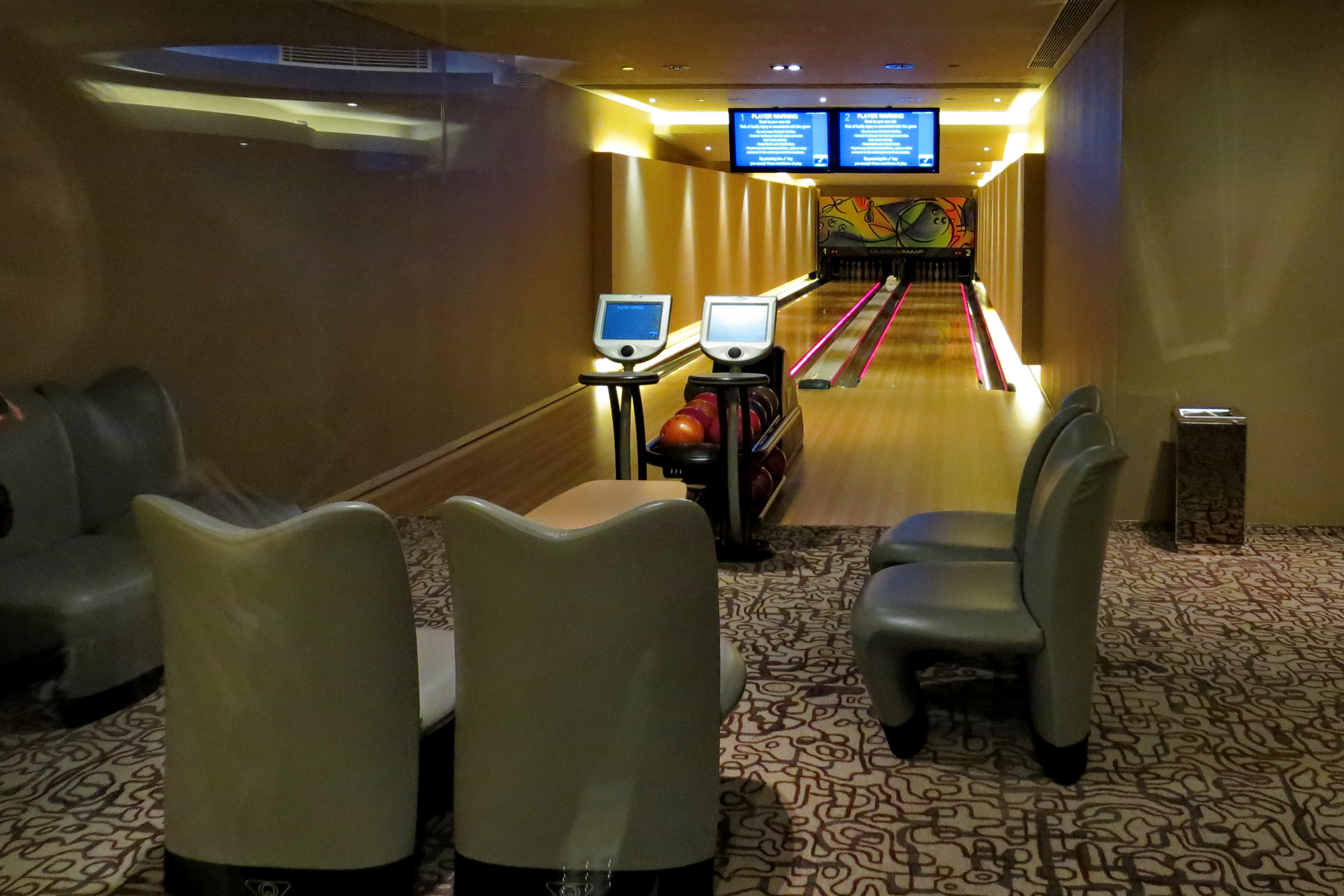 The bowling alley in the Riverpark, Sha Tin, New Territories, Hong Kong.